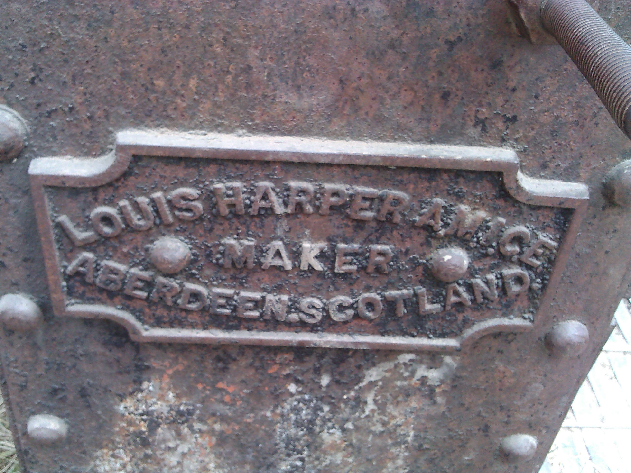 चोभारमा रहेको झोलुंगे पुलमा लेखिएको